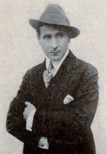 Actor Paul Panzer, on page 101 of the February 14, 1920 Exhibitors Herald.